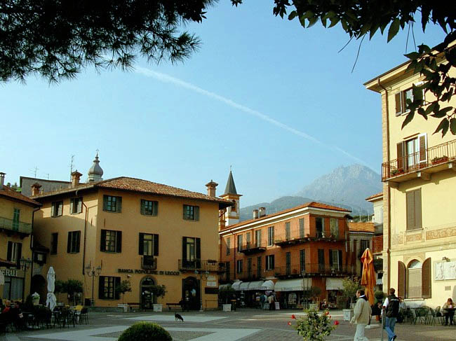 Menaggio, Piazza Garibaldi Picture taken by user:Idéfix, november 2005